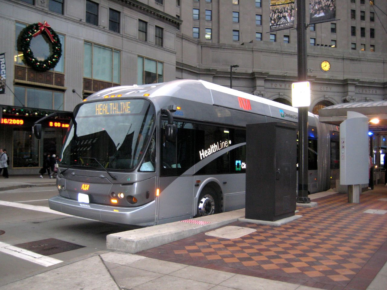 A Greater Cleveland RTA HealthLine BRT vehicle at Public Square in downtown Cleveland, Ohio